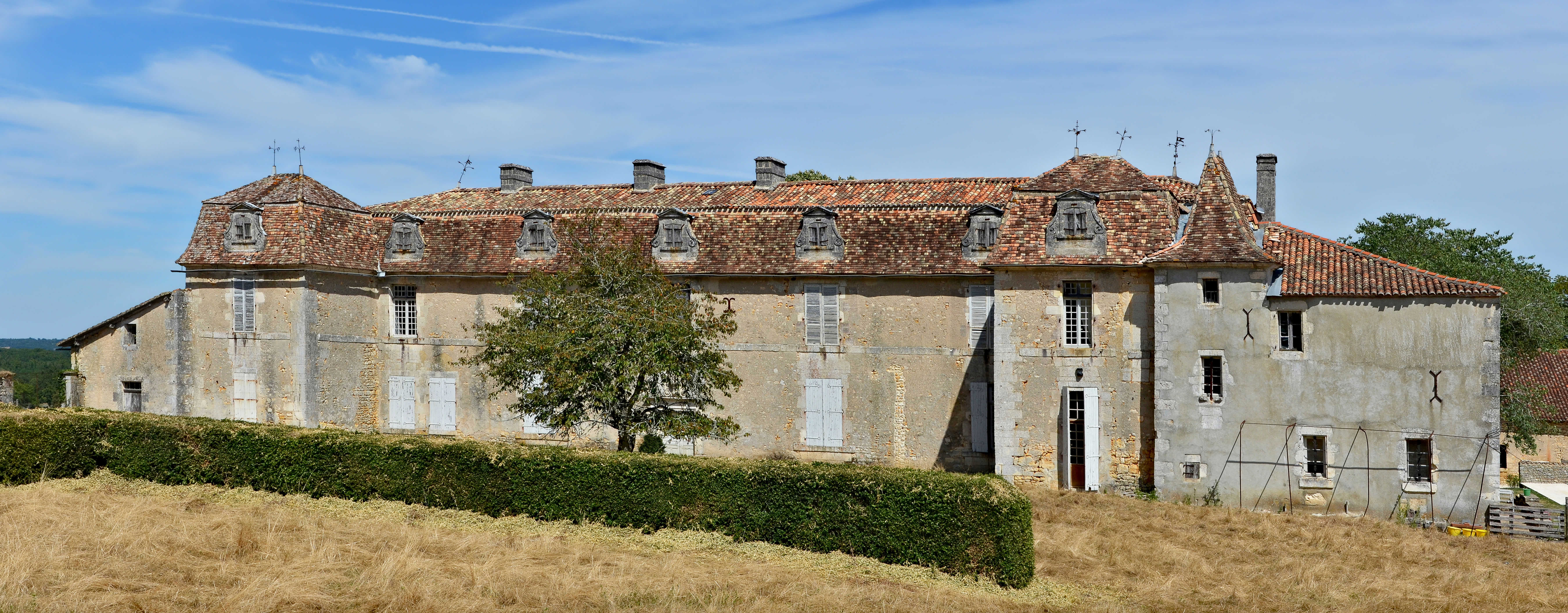 18th-century manor of La Bréchinie, SSW view, Grassac, Charente, France.